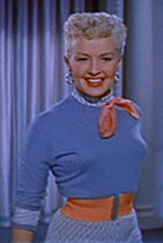 Cropped screenshot of Betty Grable in the trailer for the film How to Marry a Millionaire